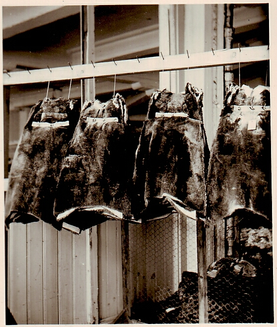 Impressions of a fur-skin grader at VEAB-Leipzig, DDR